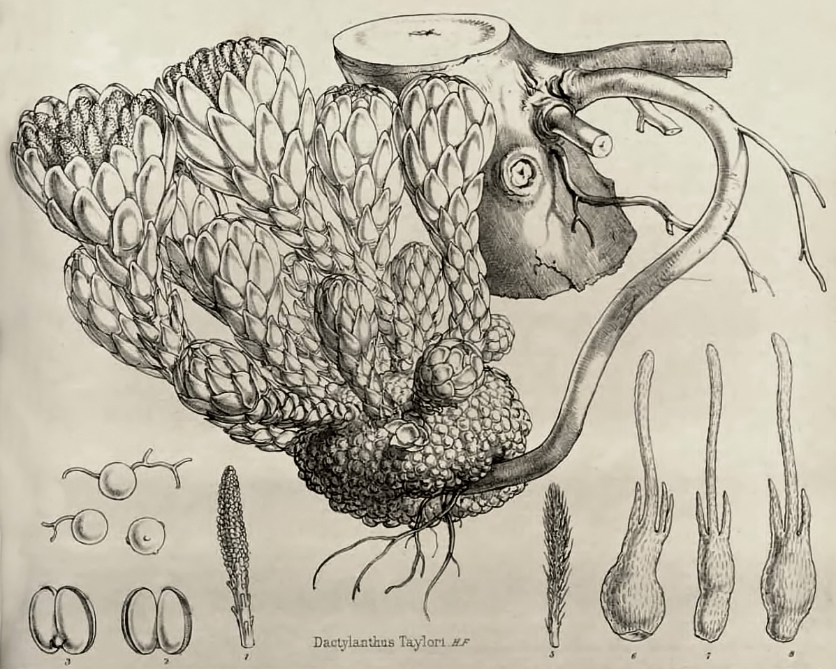 Joseph Dalton Hooker (1817–1911), Transactions of the Linnean Society, vol. 22, 1859.